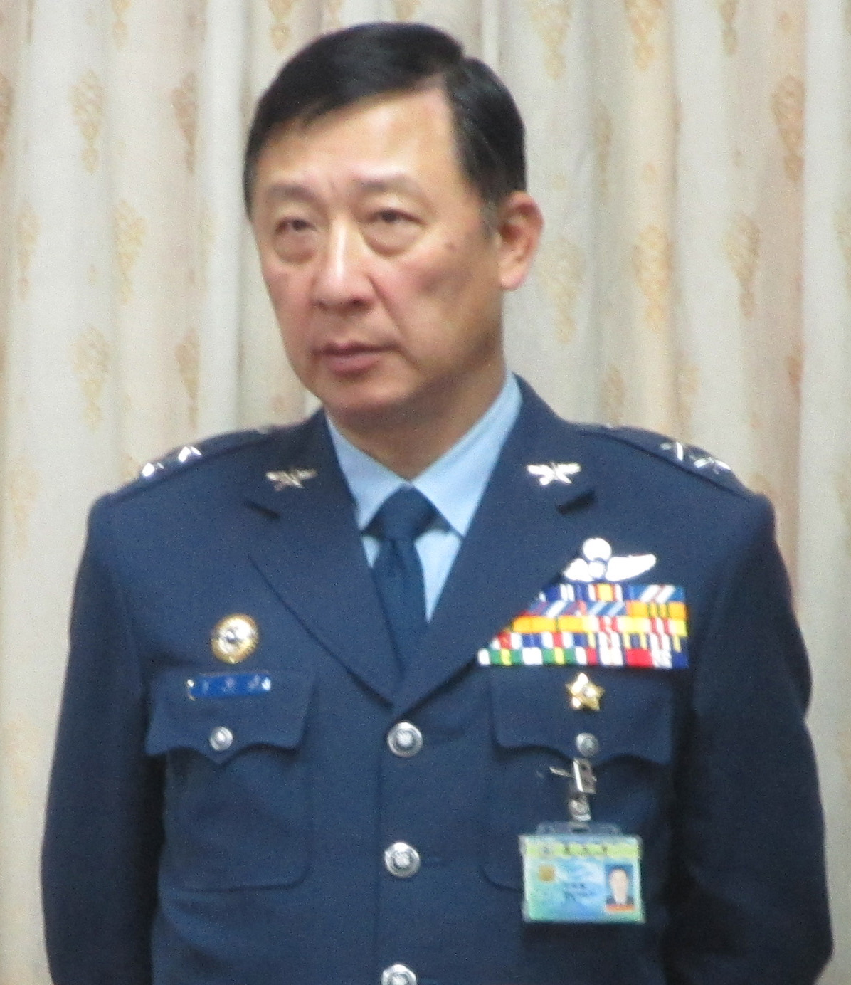 Air Force Lieutenant General Ting Chung-wu, Deputy Chief of Staff of the General Staff for Intelligence